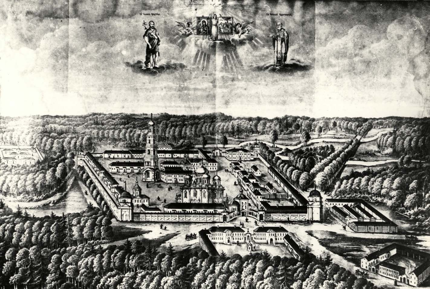 The plan of Beloberezhskaya pustyn, near Bryansk.